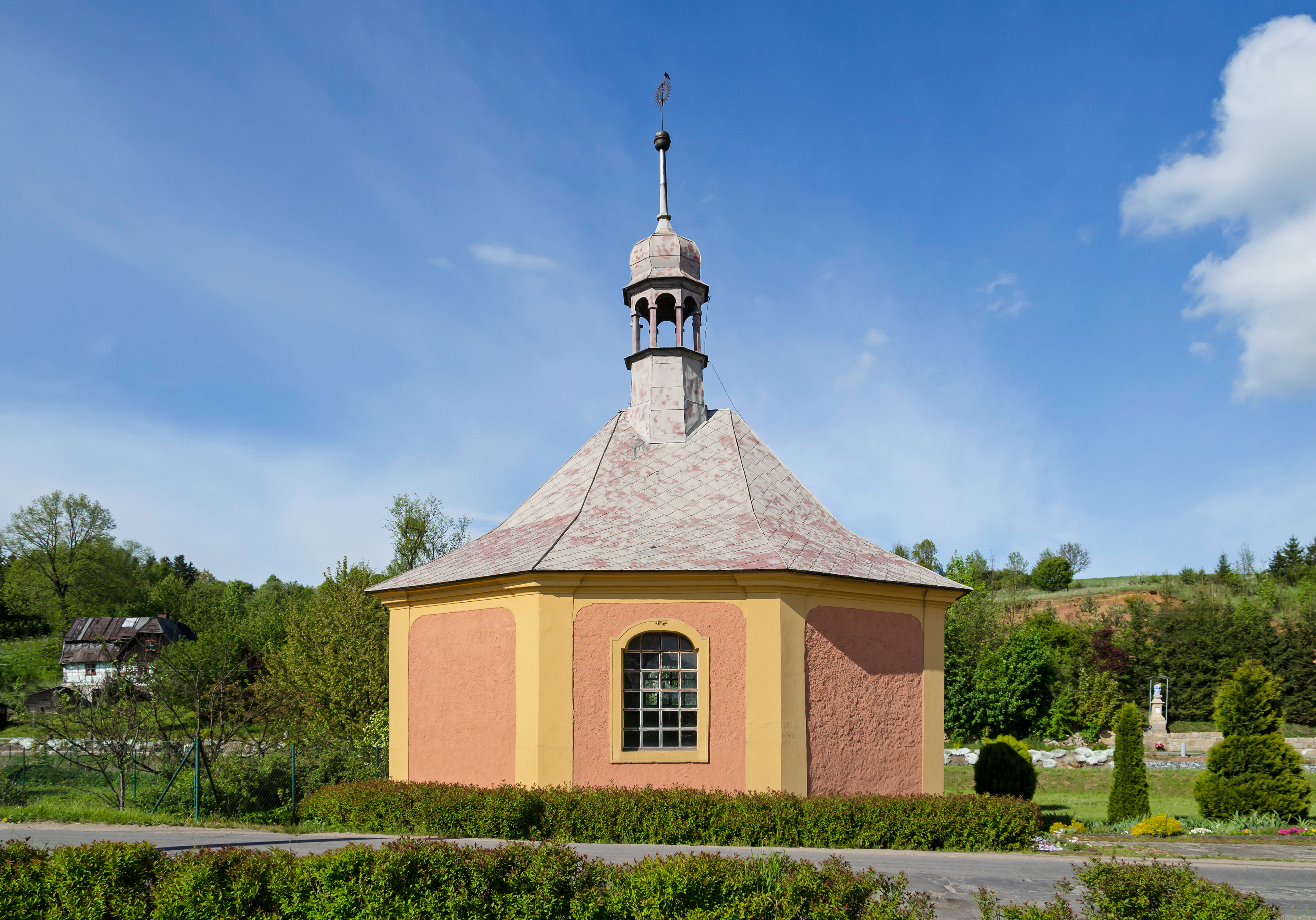 Mary Magdalene chapel in Szalejów Dolny